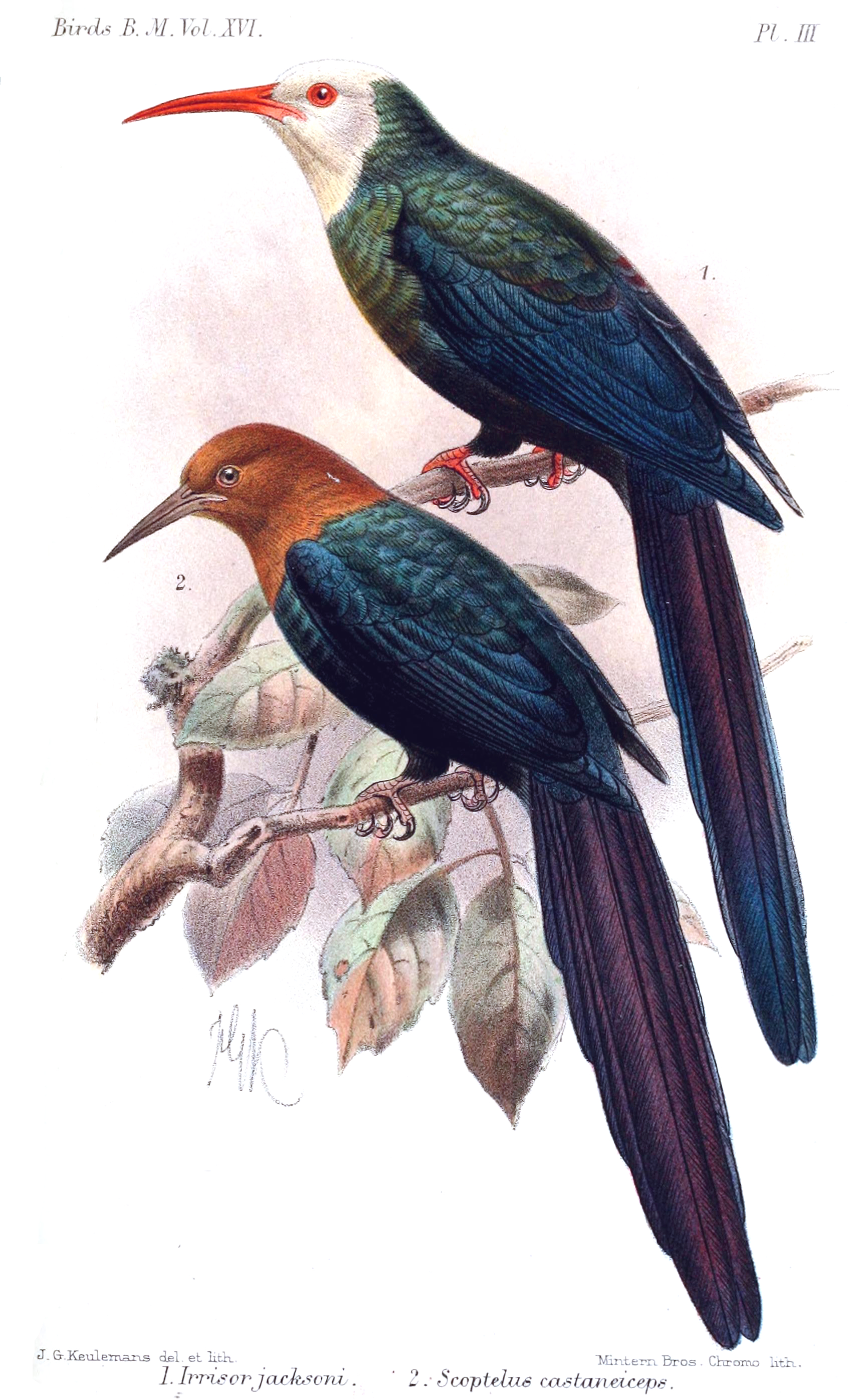 Irrisor jacksoni = Phoeniculus bollei jacksoni, White-headed Wood Hoopoe ssp. (above); and Scoptelus castaneiceps = Phoeniculus castaneiceps, Forest Wood Hoopoe (below)